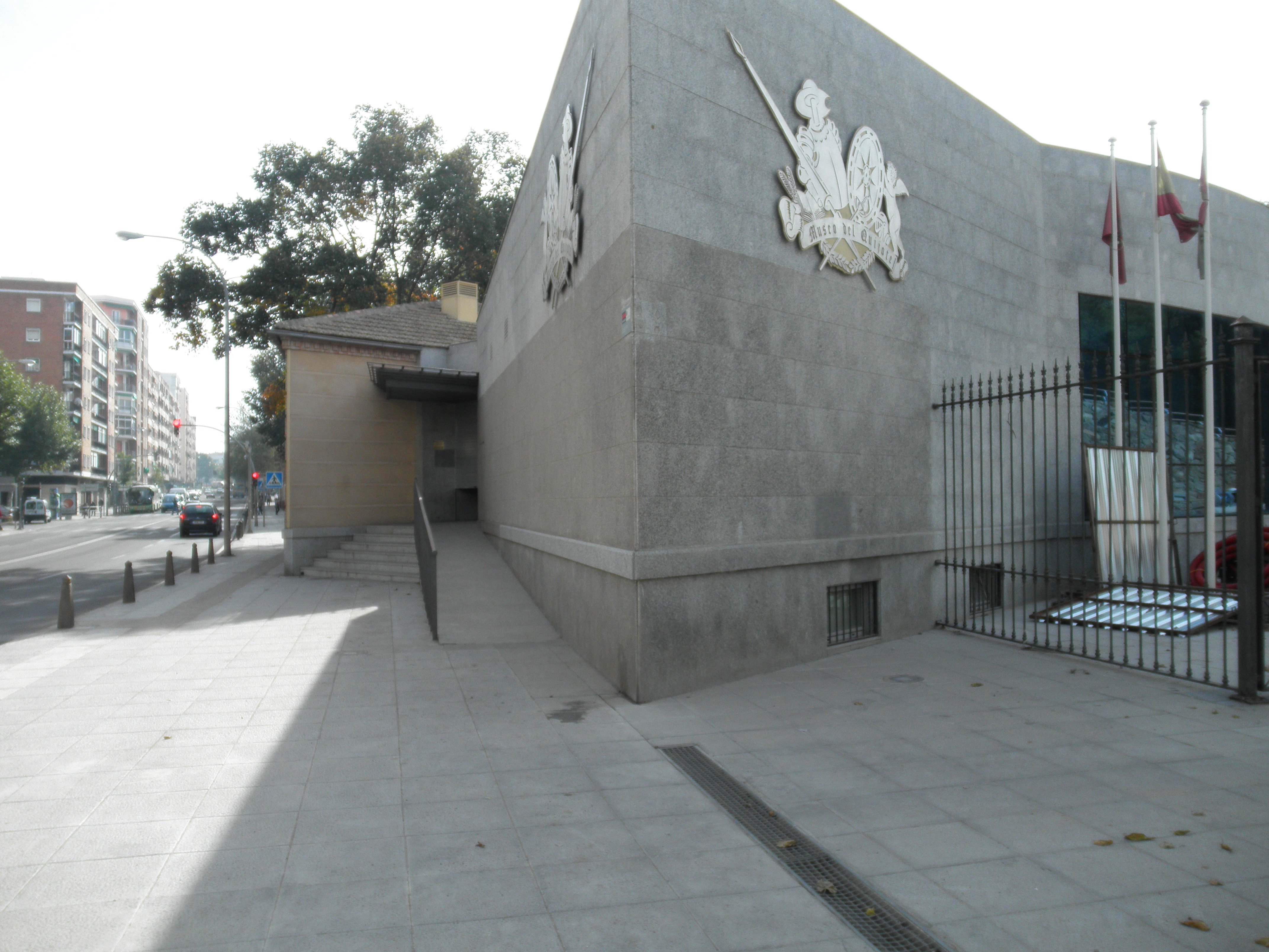 El Quijote Museum, Parque Gasset (Ciudad Real), Spain